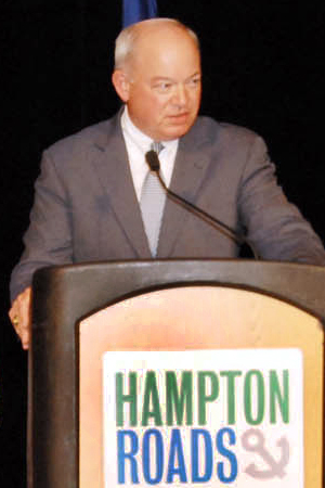 NORFOLK, Va. (Aug. 20, 2008) Norfolk Mayor Paul Fraim speaks on behalf of the civilian community at the Hampton Roads Military Recognition Reception at the Norfolk Waterside Marriott. The Hampton Roads Chamber of Commerce, Norfolk Division, held the reception to honor outstanding men and women of the armed forces in the Hampton Roads area. (U.S. Navy photo by Mass Communication Specialist 3rd Class Cory Rose/Released)